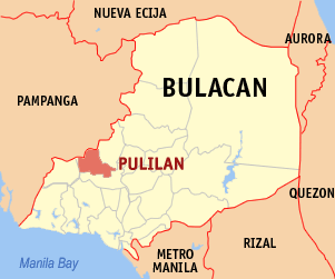 Map of Bulacan showing the location of Pulilan